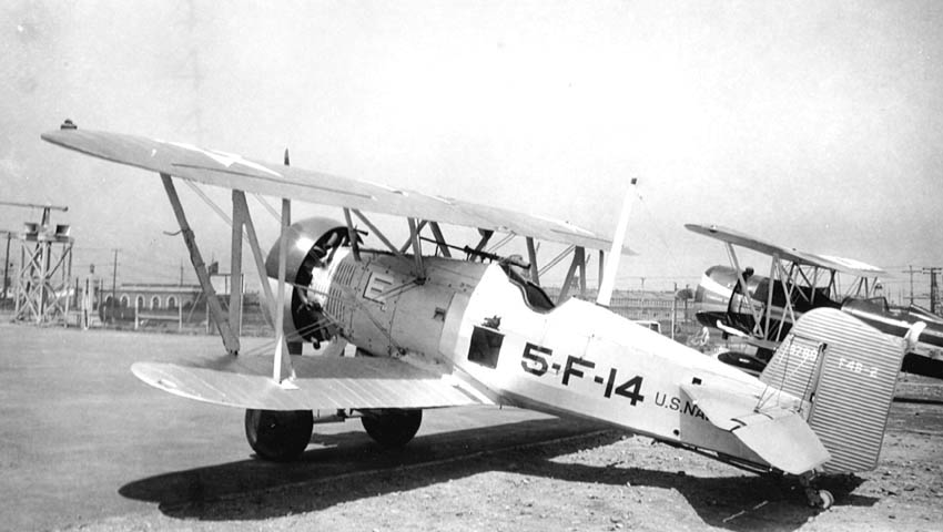 Boeing F4B-2 of VF-5B on the LEXINGTON in 1933. By late 1935 the F4B-2's were retired from the Fleet and assigned for training duty at Pensacola. Photo taken at San Francisco Bay Airdrome, Alameda, CA by Don McCash.